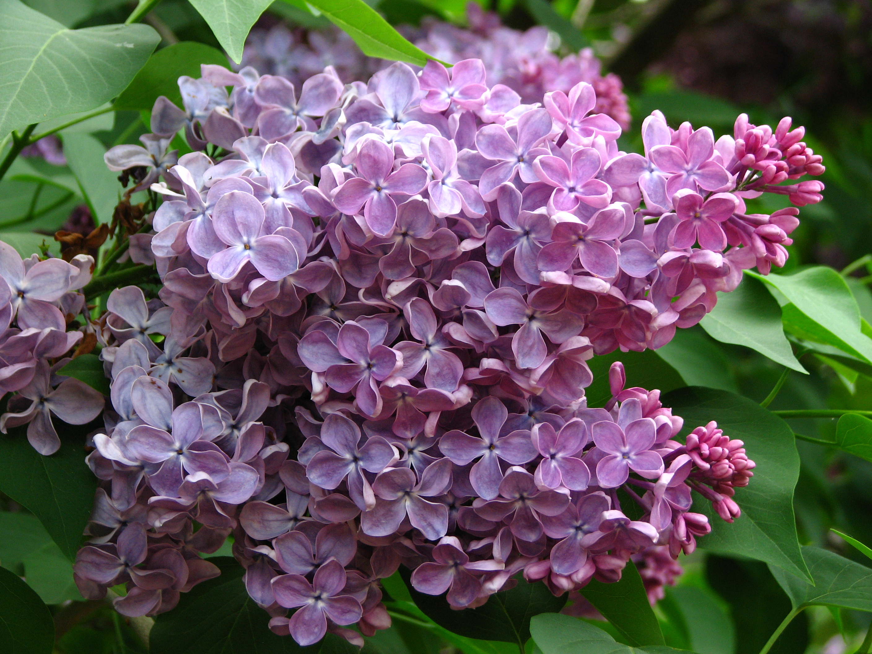 Syringa vulgaris 'Mechta'. Originator: Kolesnikov, until 1941. From the collection of the Botanical Garden of Moscow State University (main area on the Sparrow Hills).